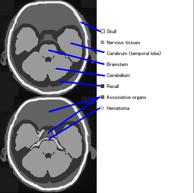 Hand-drawing of the image of Subarachnoid Hemorrhage CT scan. Author: Chikumaya(ja.Wikipedia) Drawn with GIMP for Windows 2.2